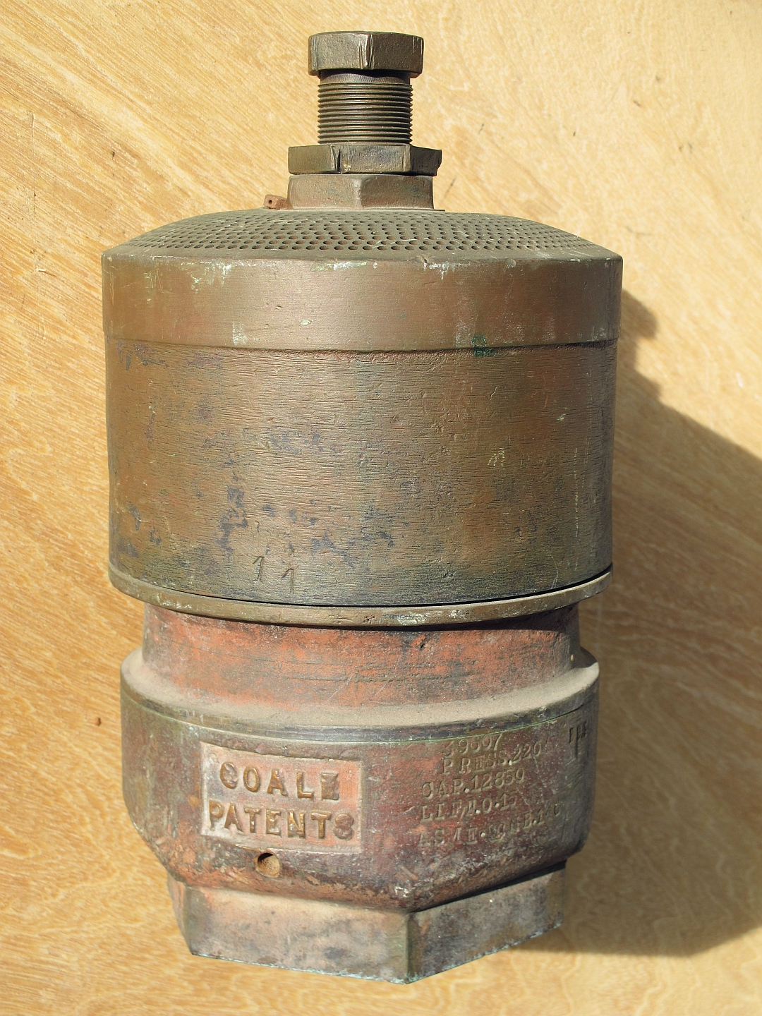 141 R steam locomotive boiler Coale safety valve.